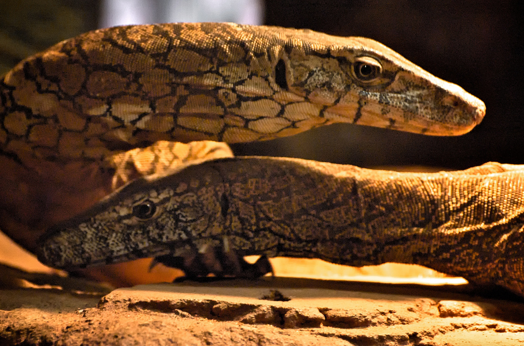 Perentie Lizards, Perth Zoo, 2010.